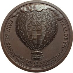 Paolo Andrean (1763 - 1823), Aeronaut Celebratory Medal = Andreani on one side and his balloon on the other